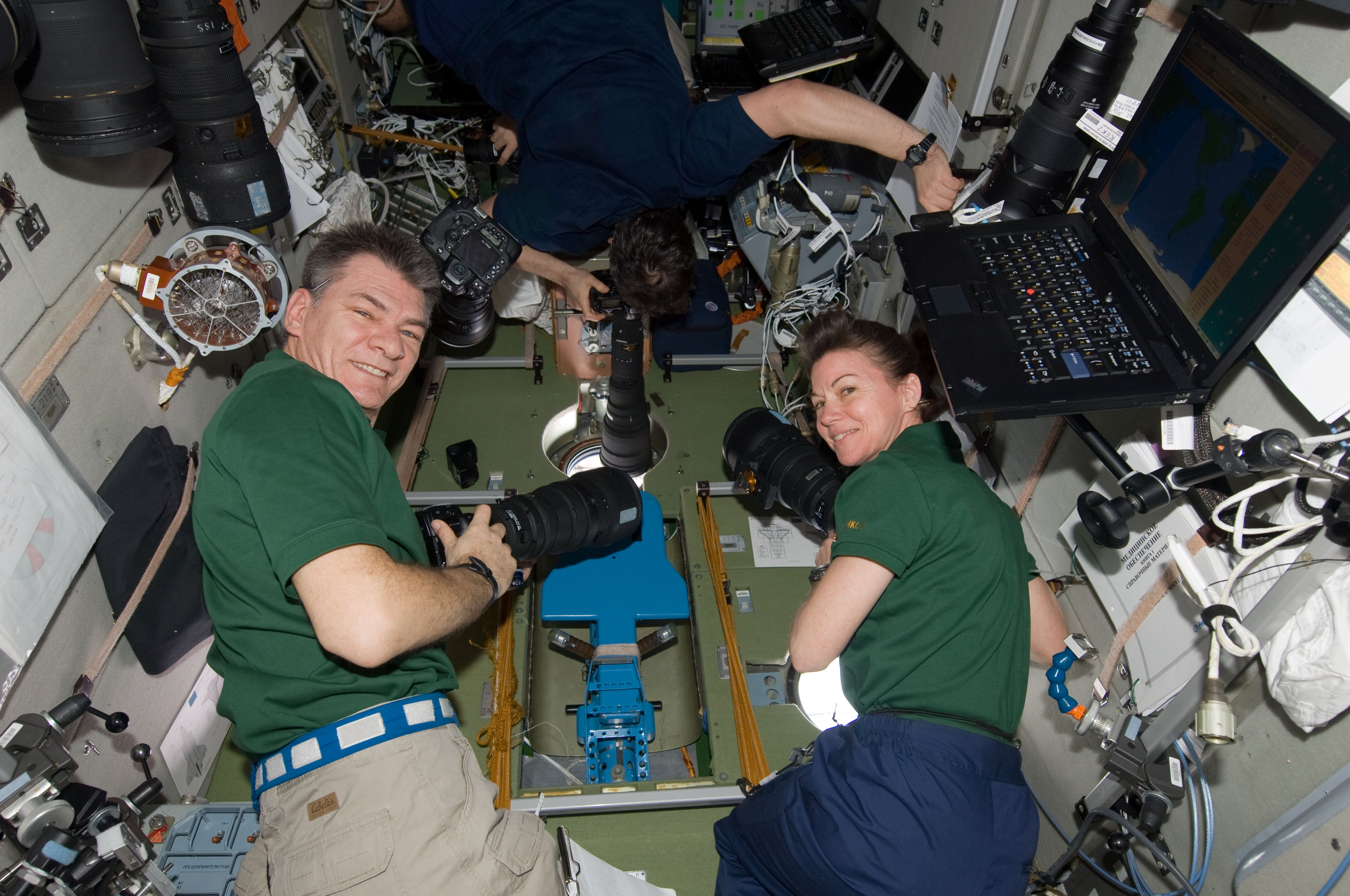 NASA astronaut Catherine (Cady) Coleman and European Space Agency astronaut Paolo Nespoli, both Expedition 26 flight engineers, use still cameras at windows in the Zvezda Service Module of the International Space Station during rendezvous and docking activities of space shuttle Discovery (STS-133).